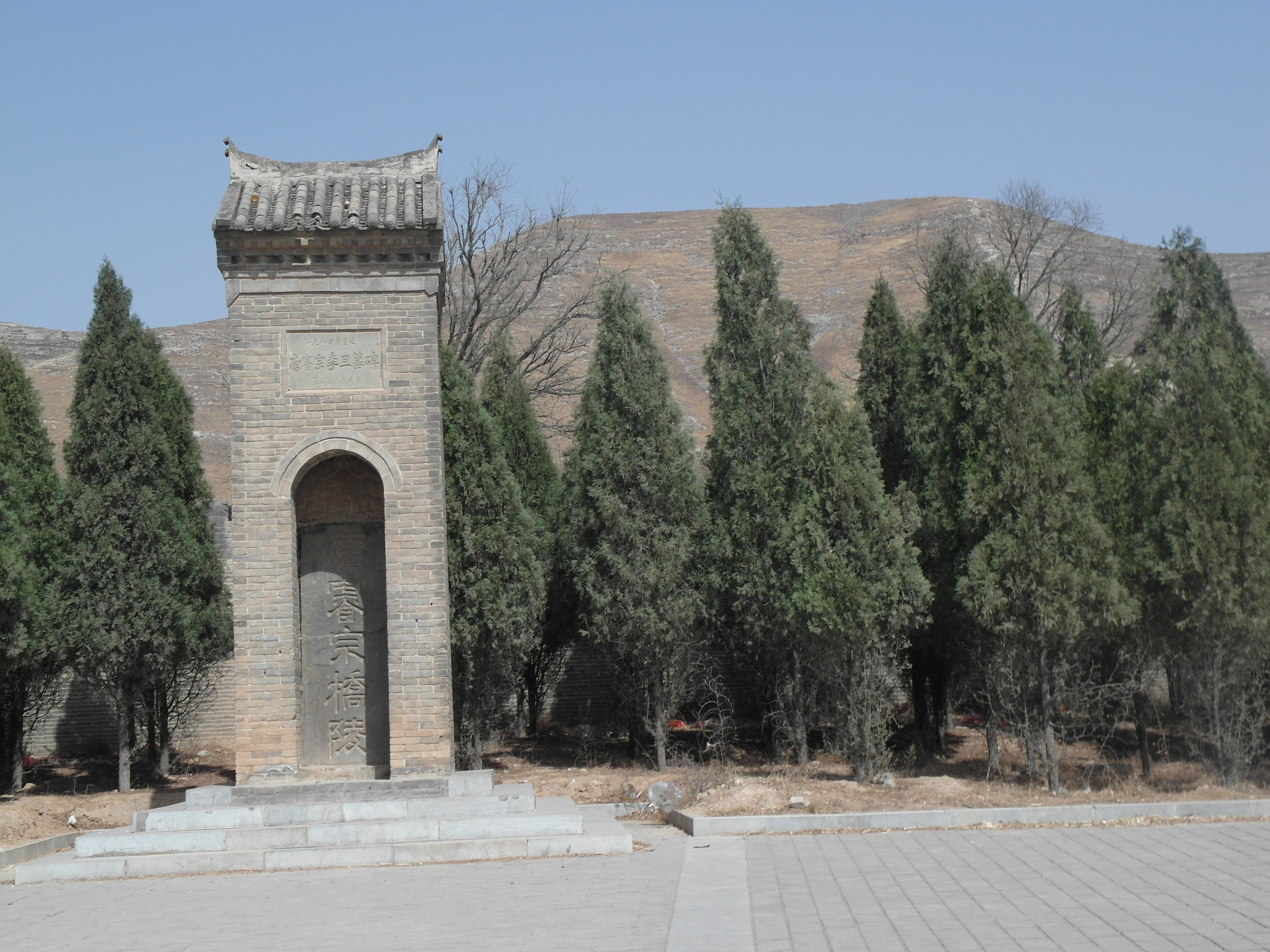 Qiaoling Mausoleum, Pucheng County, Weinan City, Shaanxi Province